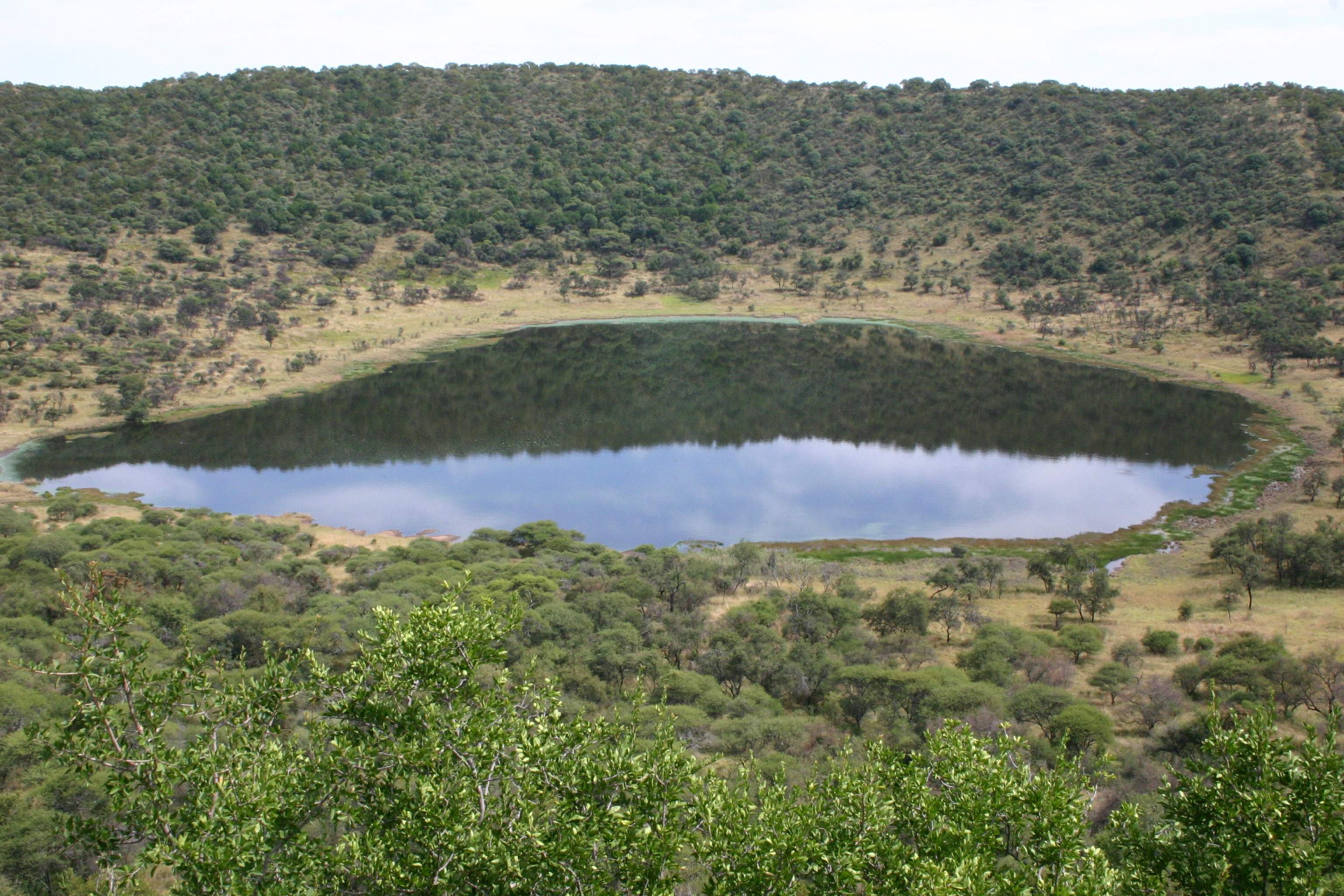 Tswaing crater north of Pretoria, South Africa